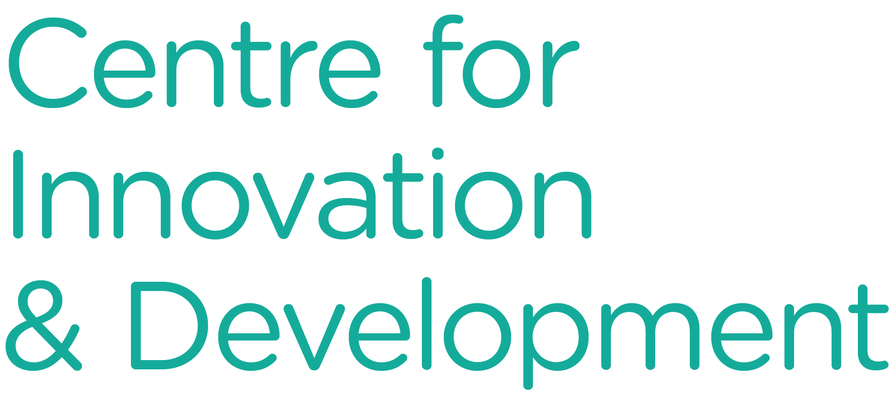 This is the official Centre for Innovation & Development Logo under the Institute for Adult Learning Singapore (IAL).